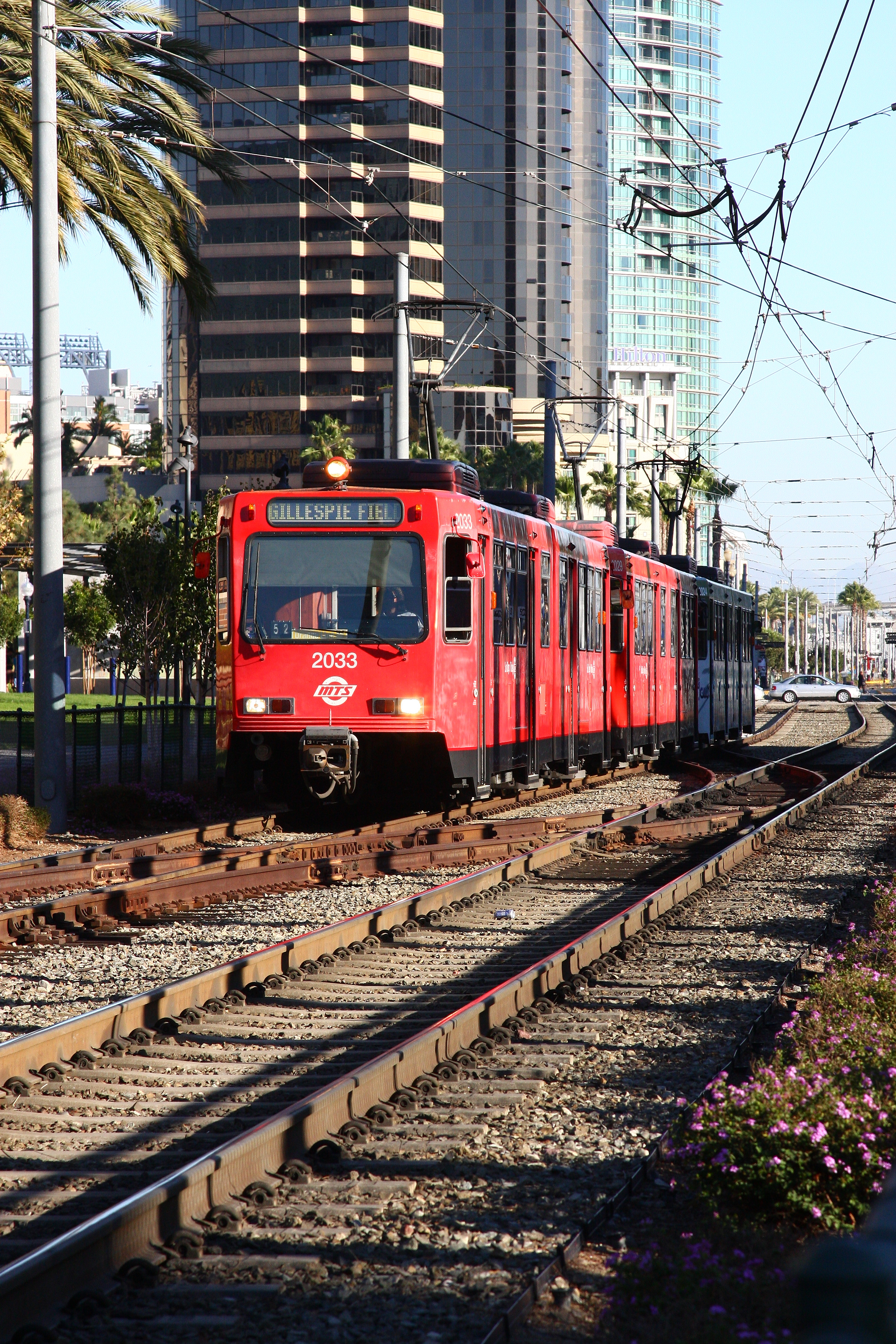 San Diego Trolley approaching the Broadway and Ketner Station downtown